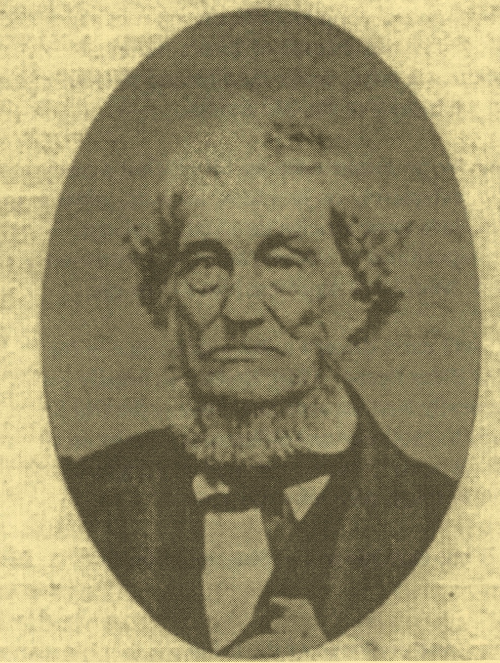 (1783-1866) Old School Baptist preacher of the early to mid 19th century. One of the writers of the influential Blackrock Address of 1832, which rallied many Baptists against the newly formed missionary societies, Sunday Schools, and Bible Societies.